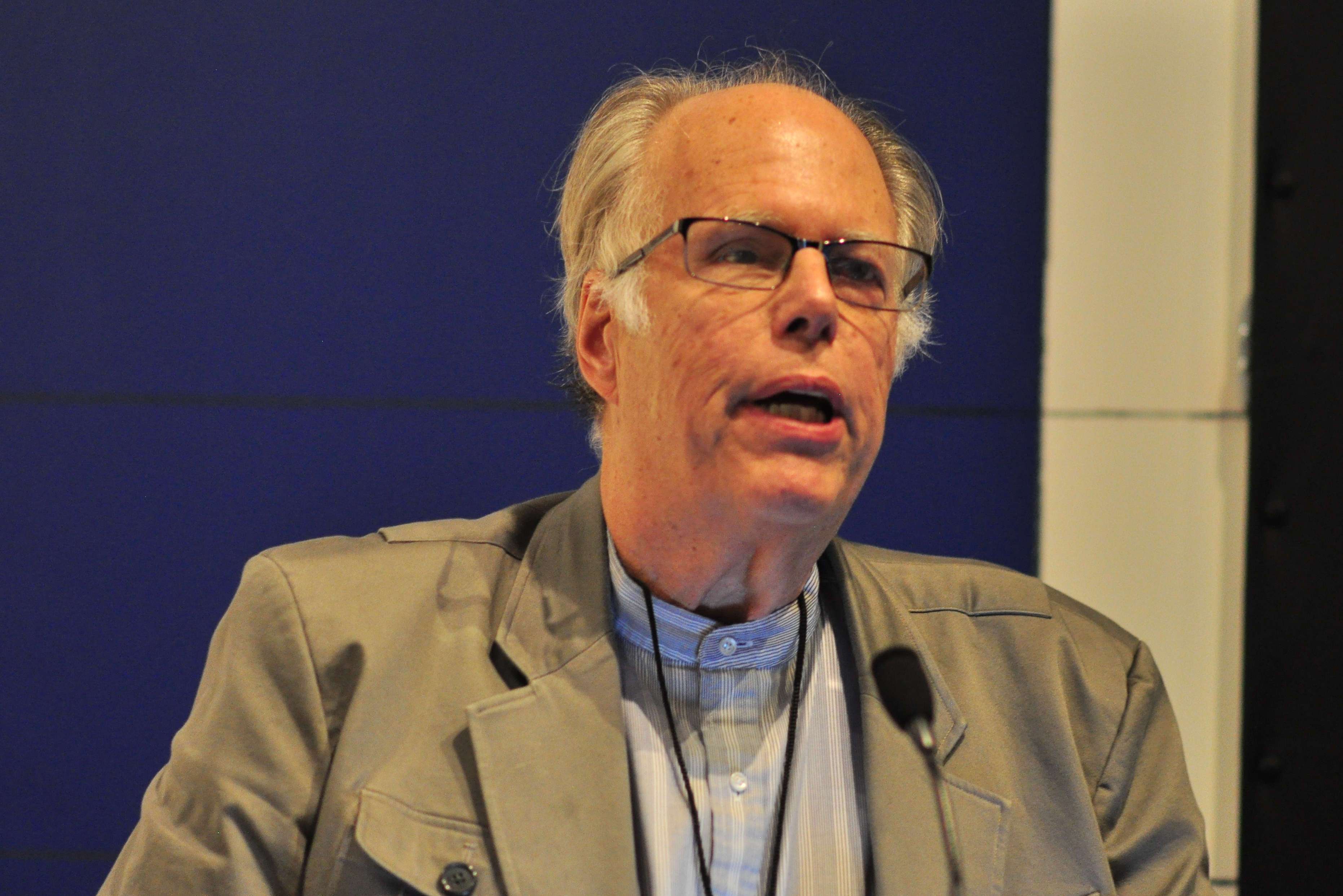 John Rockwell on the panel "Voicing Transgression", Friday, April 17, 2015, Pop Conference 2015. Level 3 Gallery Space, EMP Museum, Seattle, Washington.